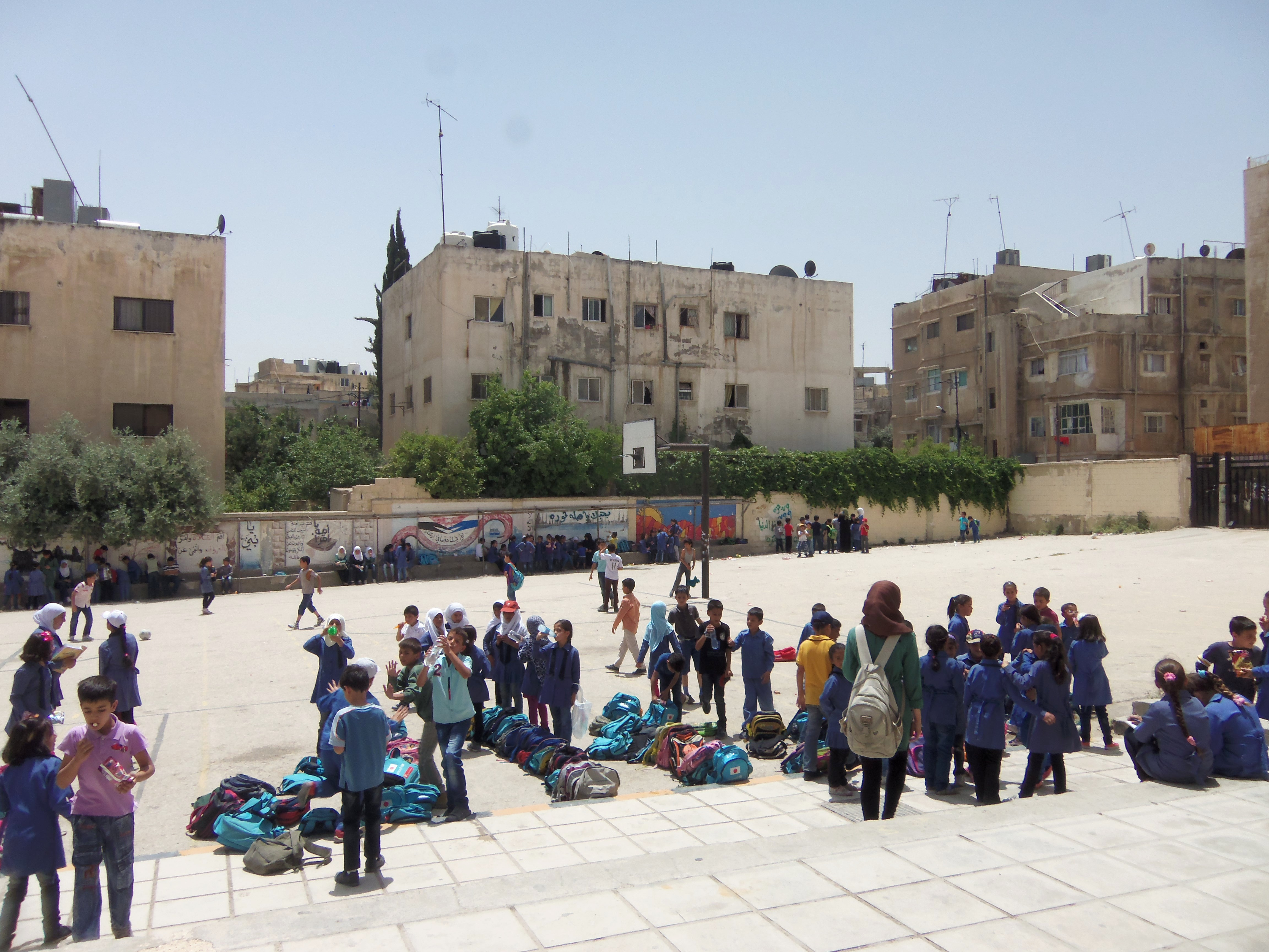 Preparation of the school opening session “tabour”, Pilot school Al-Quds High School for Girls in Al Nuzha, Amman. By GIZ Jordan